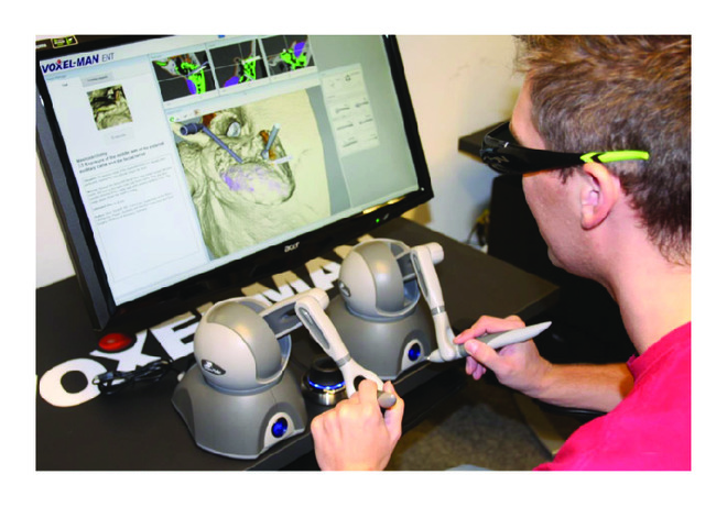 (a) Experimental design, (b) first-person view, and (c) automatic performance metrics generated by the Voxel-Man TempoSurg simulator.